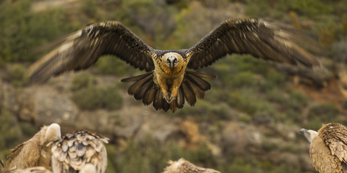 Bearded Vulture landing - Catalan Pyrenees - Spain_S4E7720